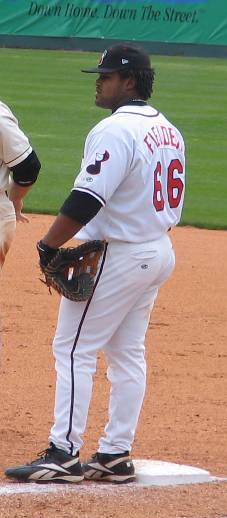 Prince Fielder, a first baseman for the minor league Nashville Sounds, stands on first base at Herschel Greer Stadium in a game on April 13, 2005